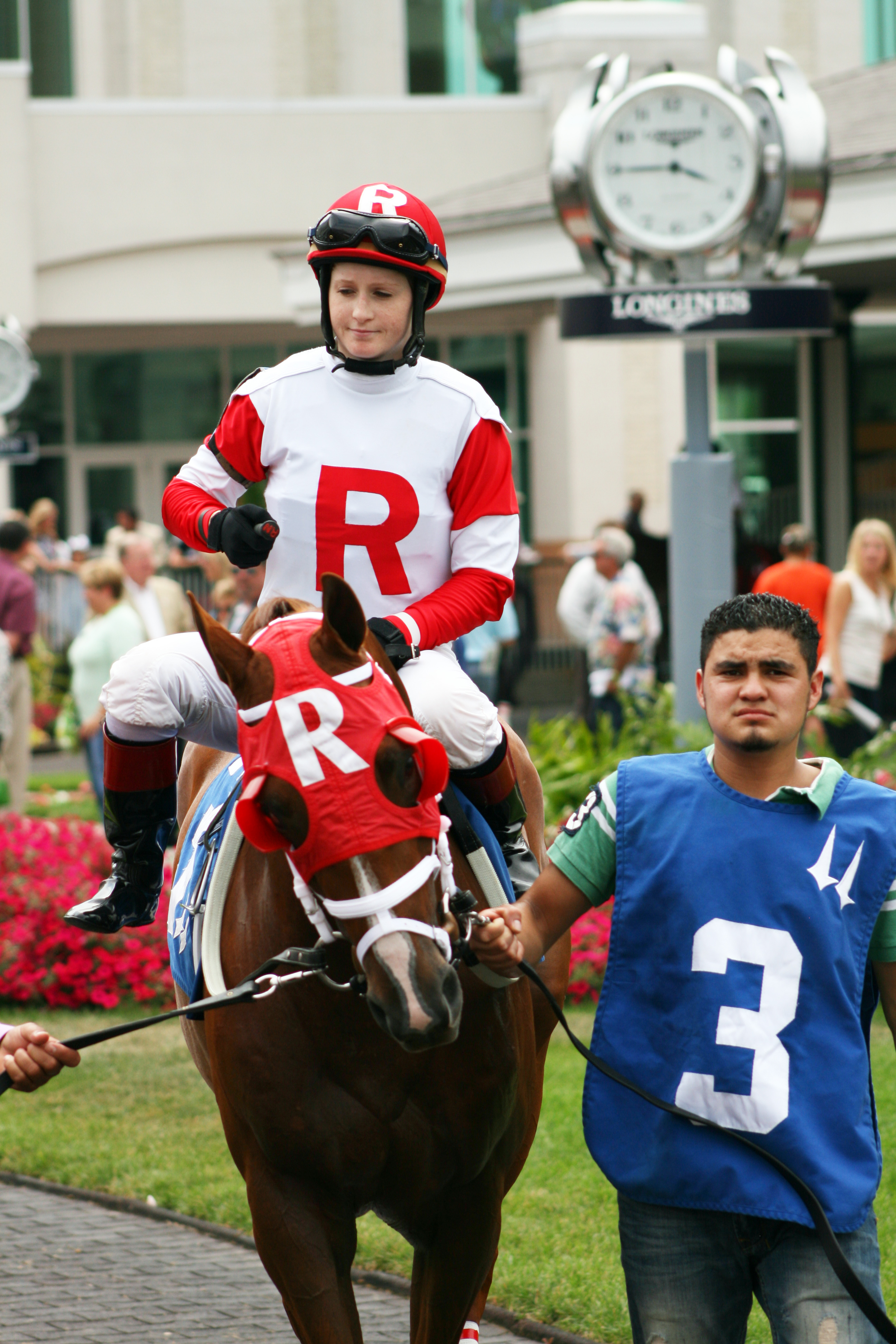 Rosie Napravnik on Dehere On Tour in the racing colors of Ken and Sarah Ramsey at Churchill Downs, June 16, 2013